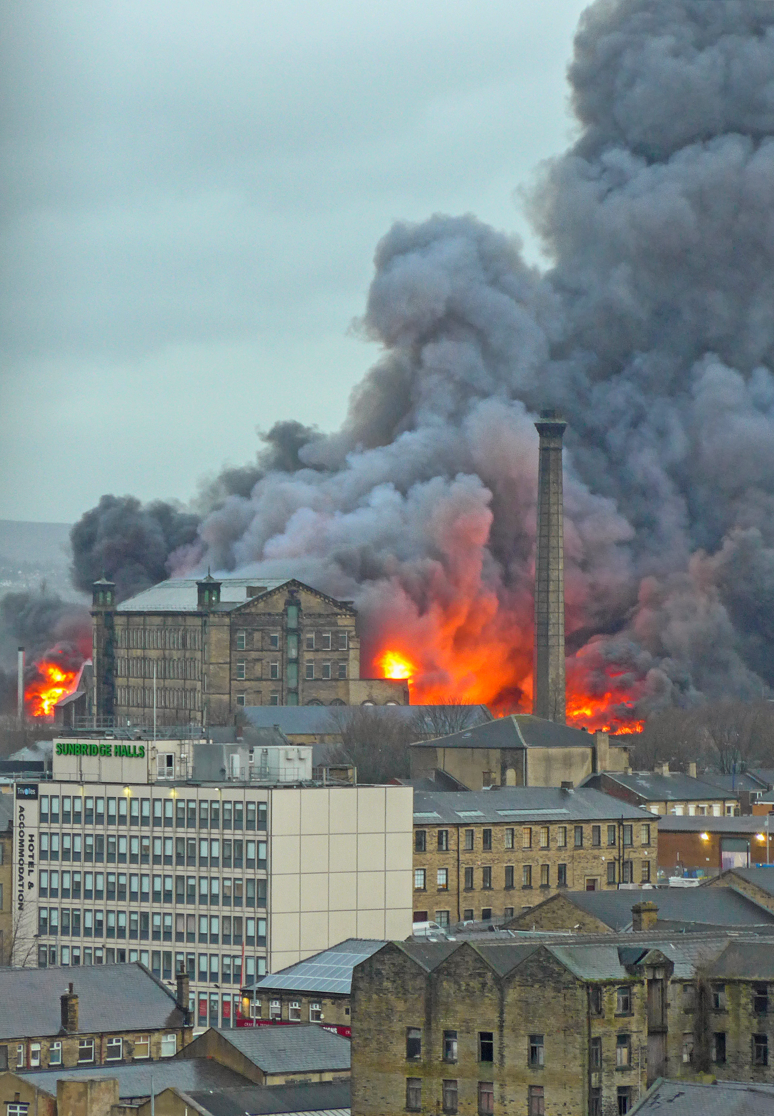 Drummond Mill, Lumb Lane, Manningham